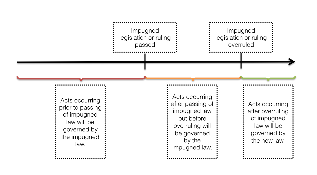 A diagram showing how different acts are subject to the doctrine of prospective overruling in Singapore constitutional law.